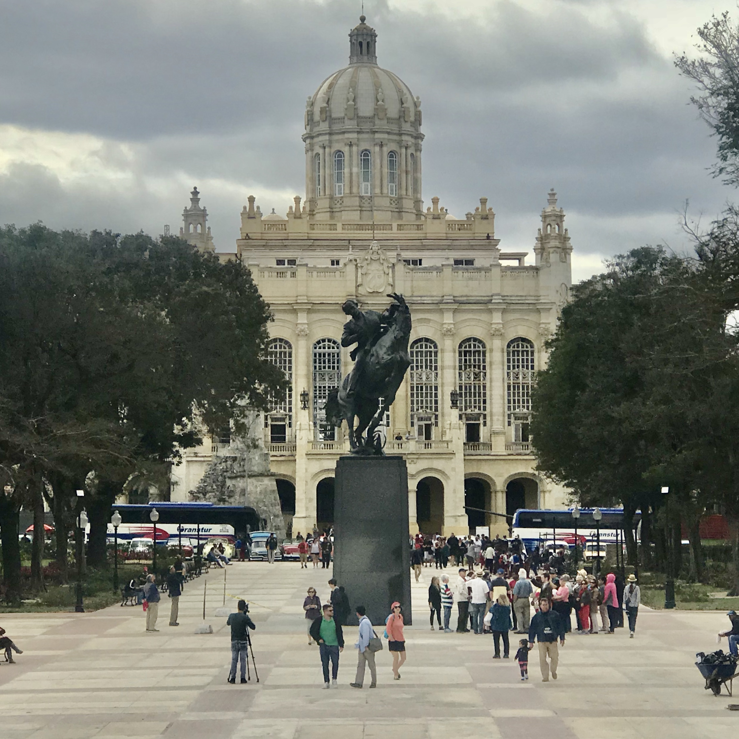 Museum of Revolucion in Havana, Cuba